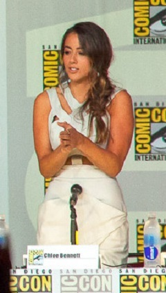 Chloe Bennet at the Marvel's Agents of S.H.I.E.L.D. panel of the 2013 San Diego Comic-Con International.